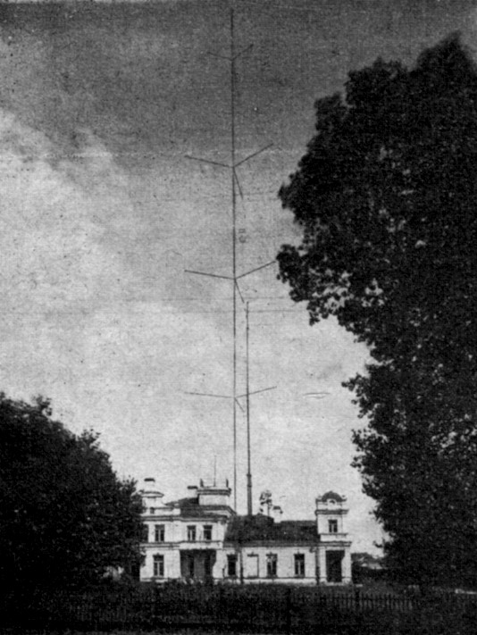 Building of Polskie Radio Wilno in 1928.